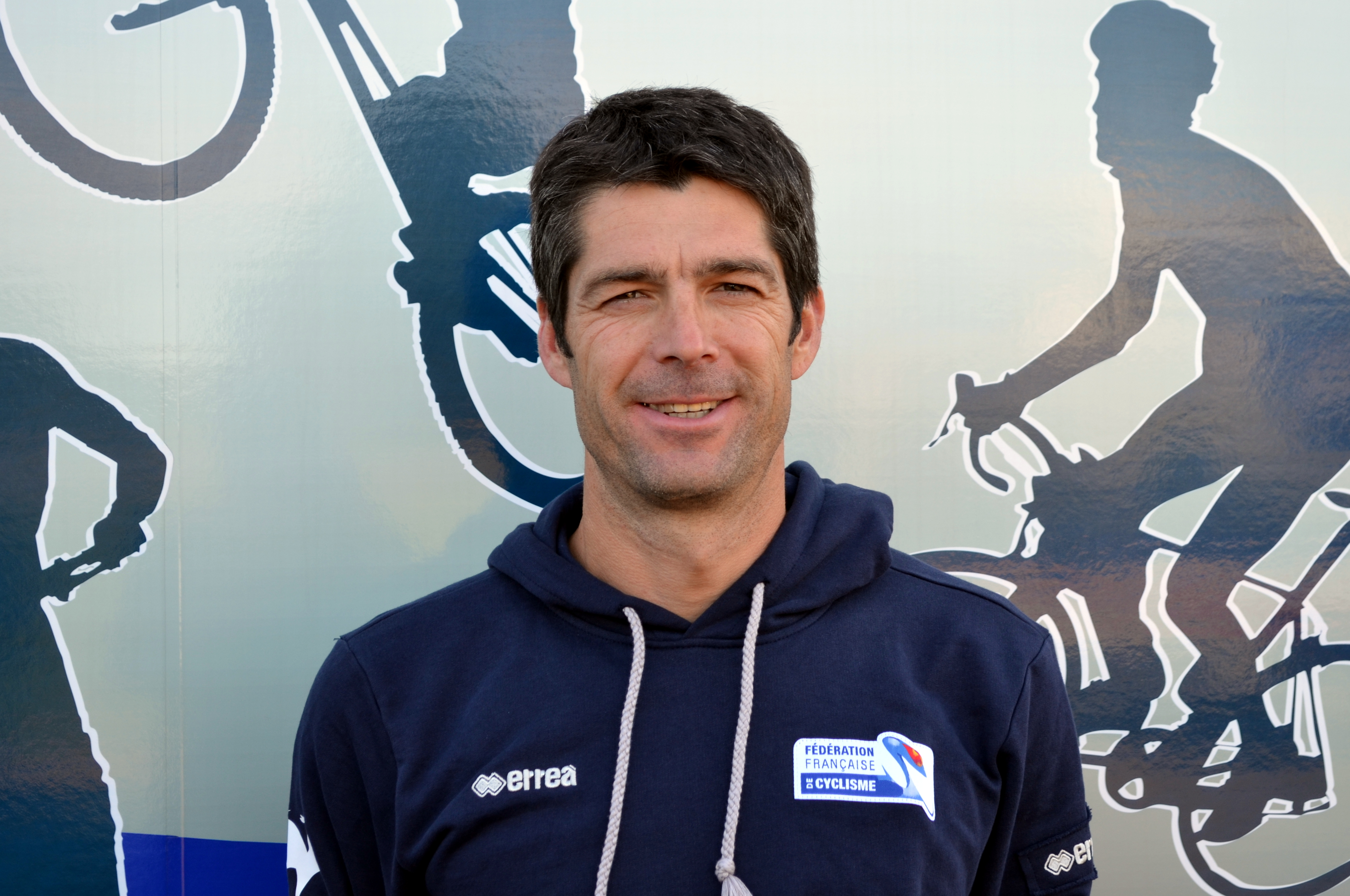 Tour de l'Ain 2014 - Stage 1, evening at hotel. Personality rights warningAlthough this work is freely licensed or in the public domain, the person(s) shown may have rights that legally restrict certain re-uses unless those depicted consent to such uses. In these cases, a model release or other evidence of consent could protect you from infringement claims.